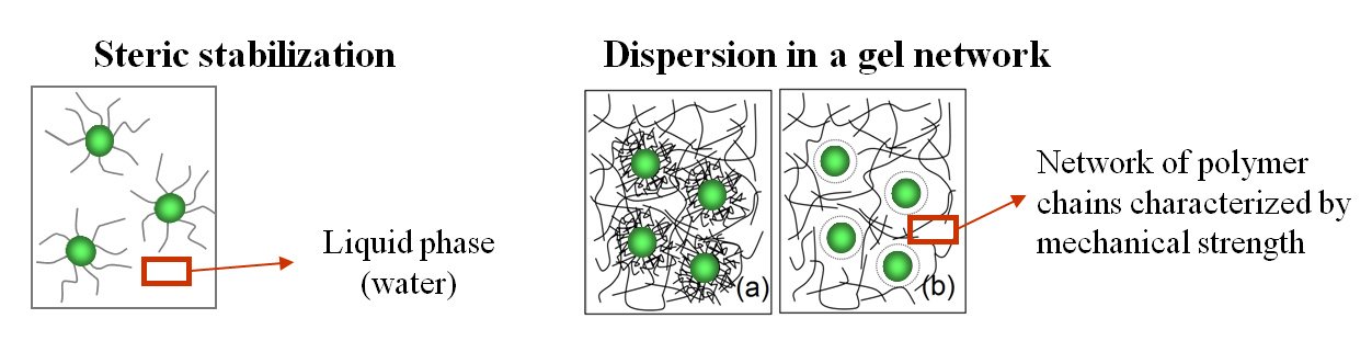 Diagram of steric stabilization and gel network stabilization in colloids.